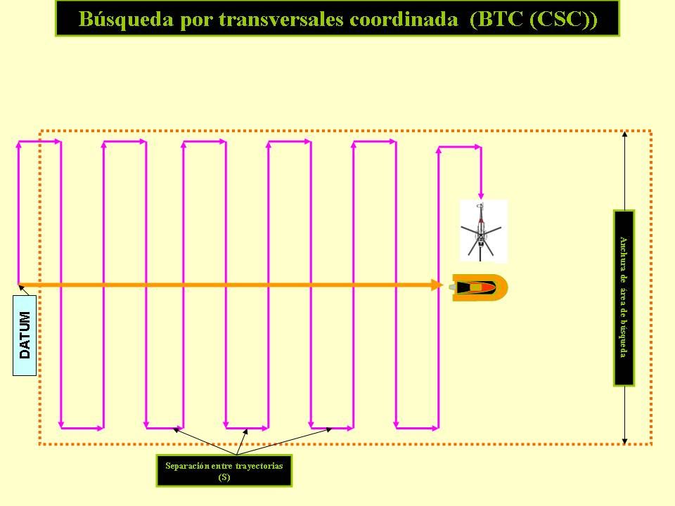 Creeping line search, co-ordinated (CSC) - IAMSAR Manual